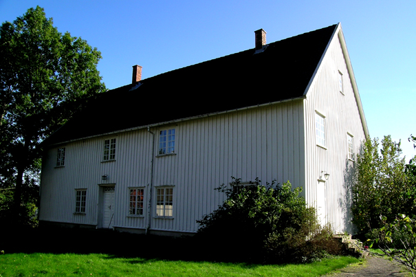 Andebu parsonage, Andebu, Norway. Protected by law 1991.